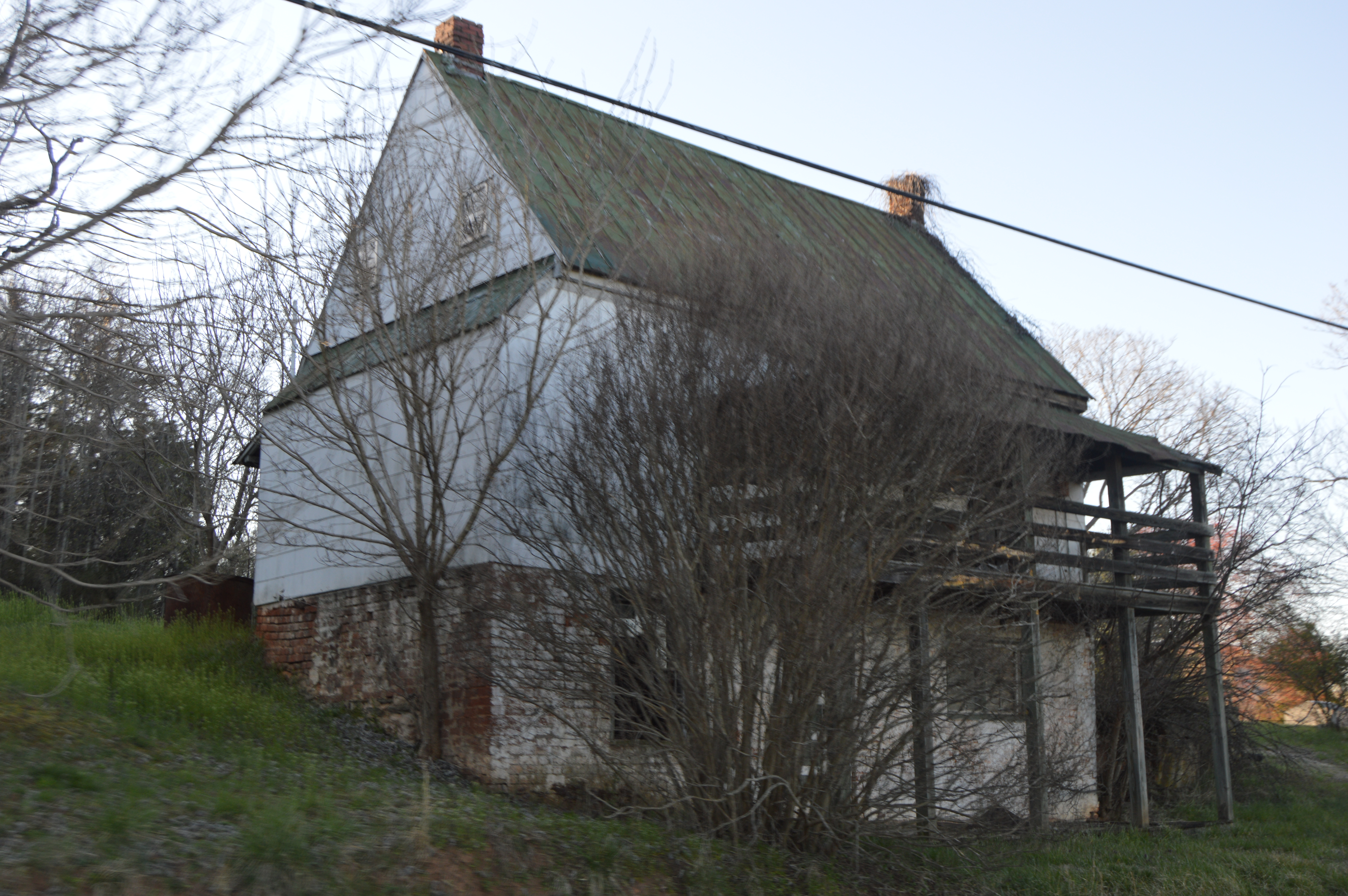 Front and southern side of The Saddlery, located at 741 State Route 151 at Clifford in Amherst County, Virginia, United States. Built in 1814, it is part of the Clifford-New Glasgow Historic District, a historic district that is listed on the National Register of Historic Places.